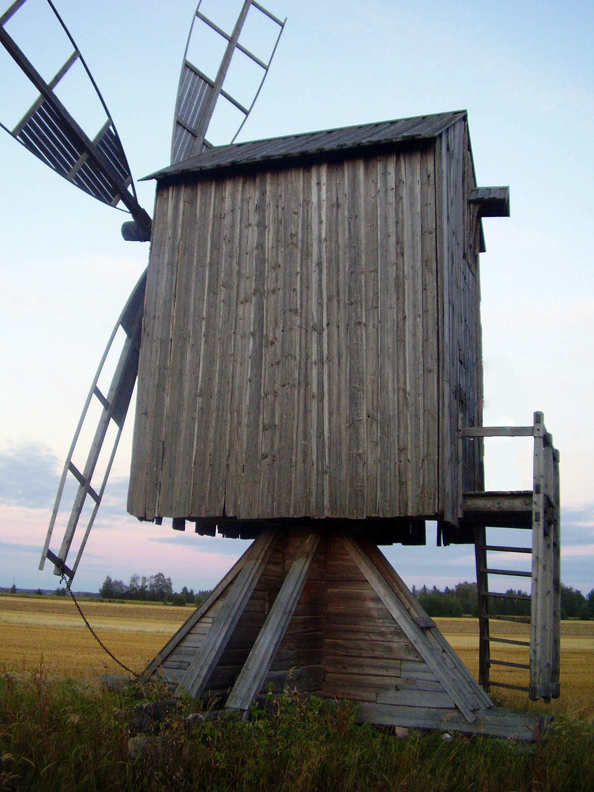 Windmill in Tyrnävä, Finland